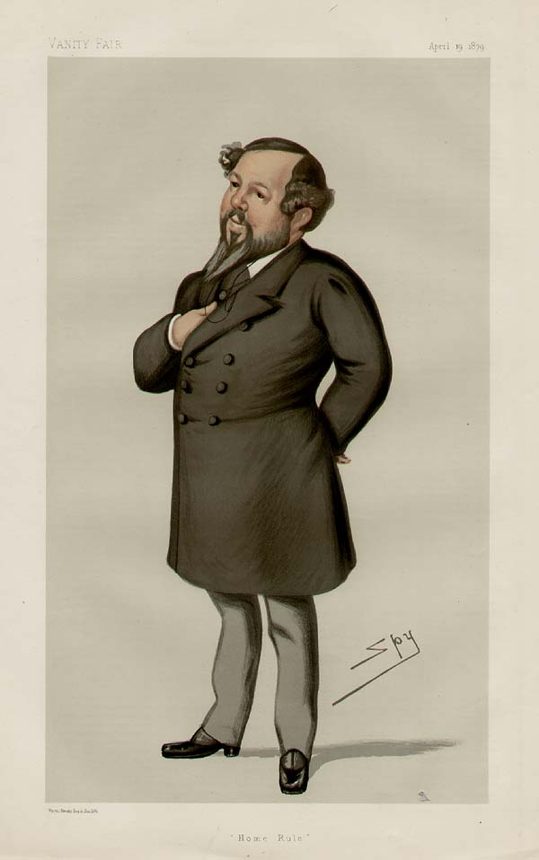 Statesmen No.300: Caricature of Mr Mitchell Henry MP. Caption reads: "Home Rule"